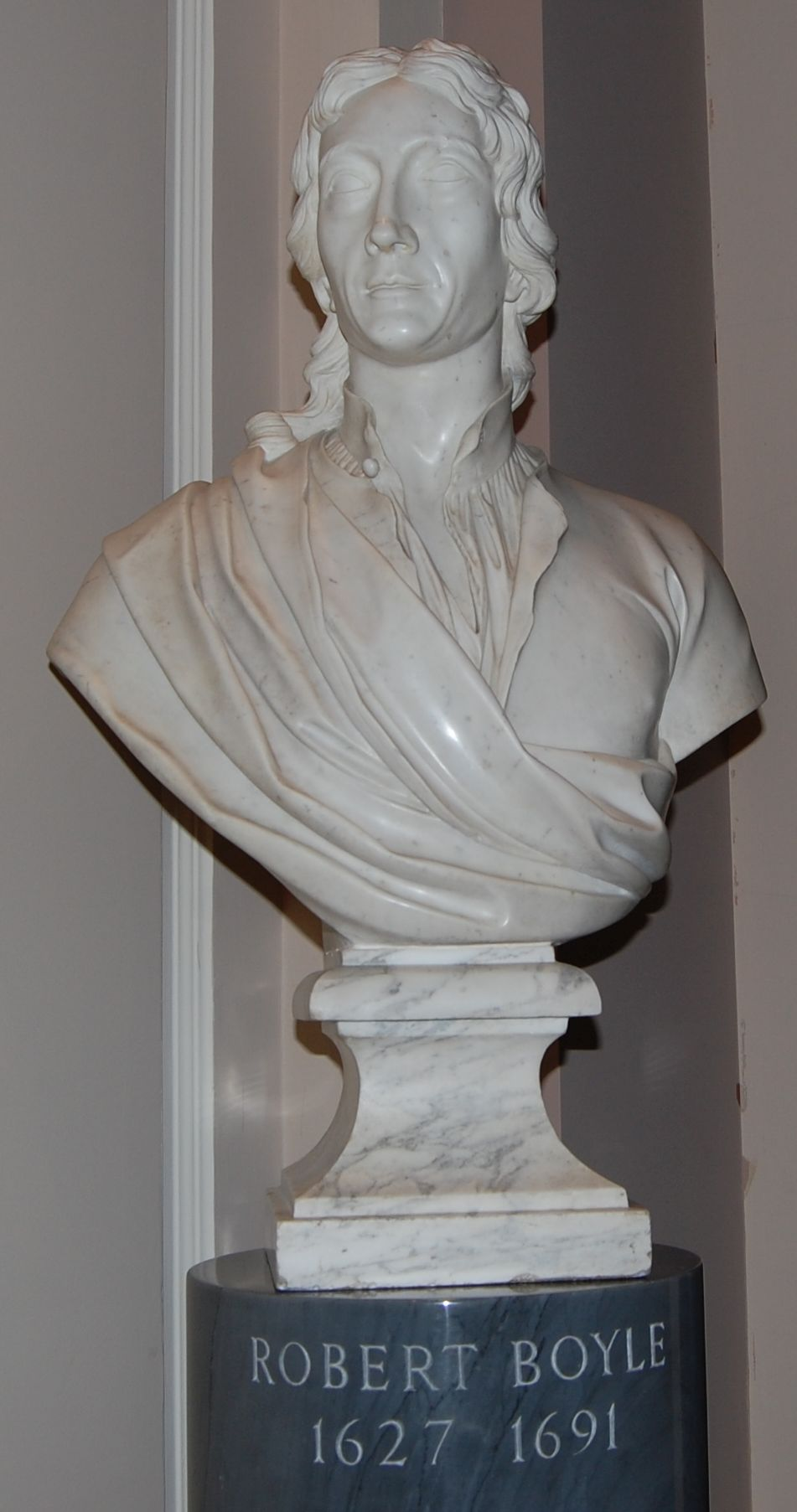 Bust of Robert Boyle, by Giovanni Battista Guelfi, in the collection of the Royal Society of Chemistry, at it's Burlington House, London, headquarters.